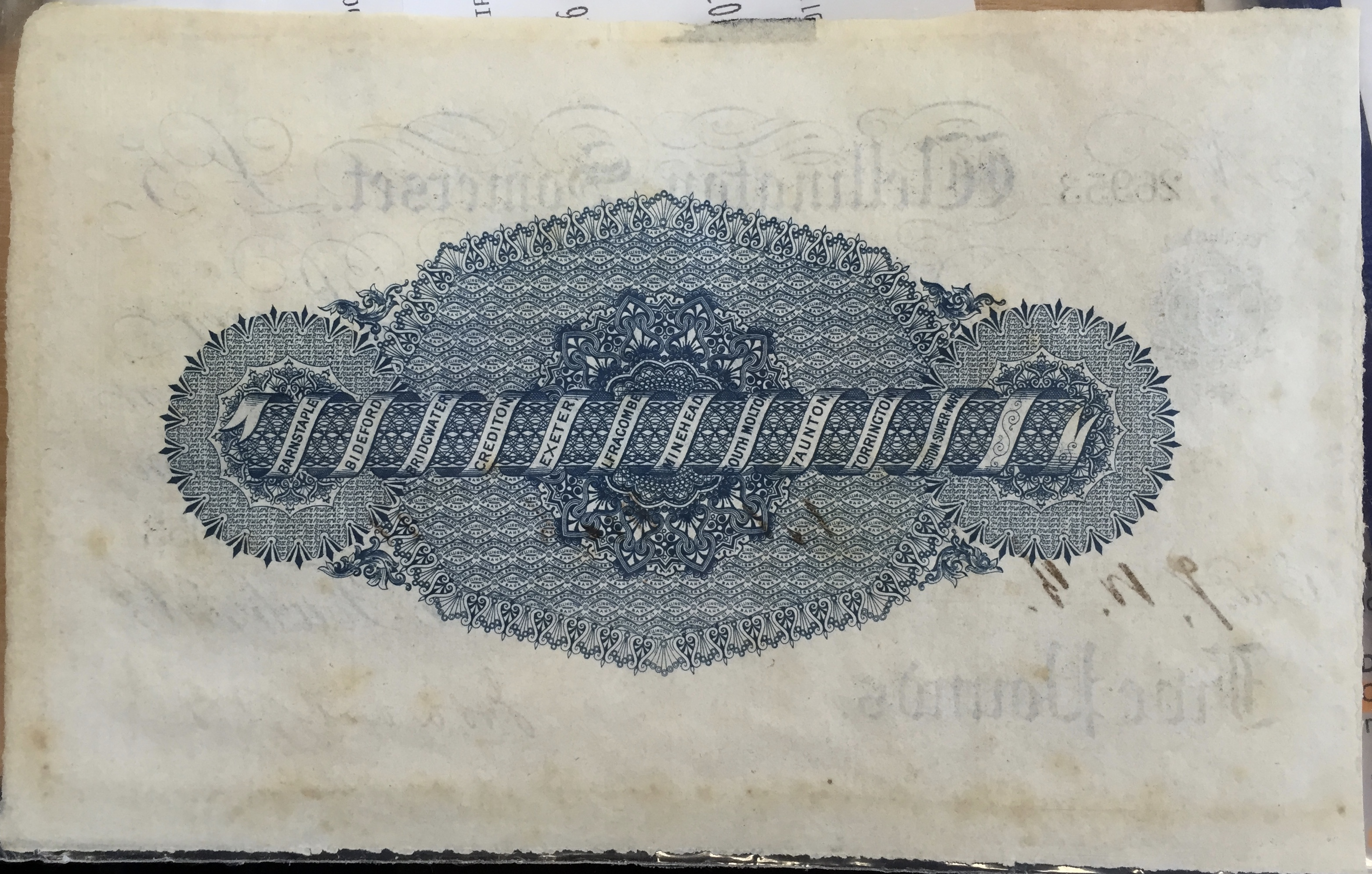 Fox, Fowler & Co. £5 Note showing branch list